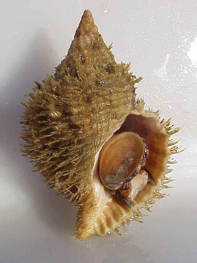 apertural view of Fusitriton oregonensis